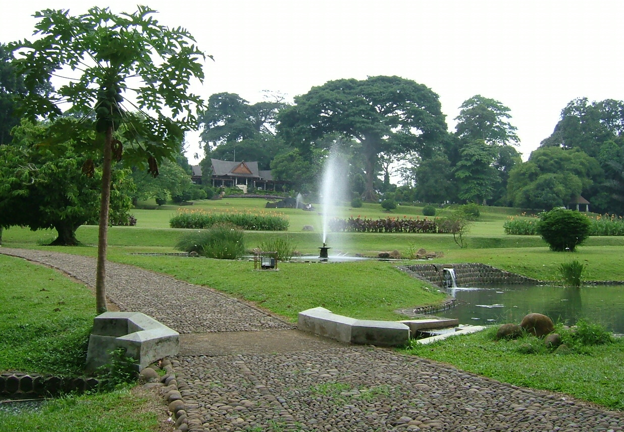 Bogor Botanical Gardens, Bogor, Indonesia